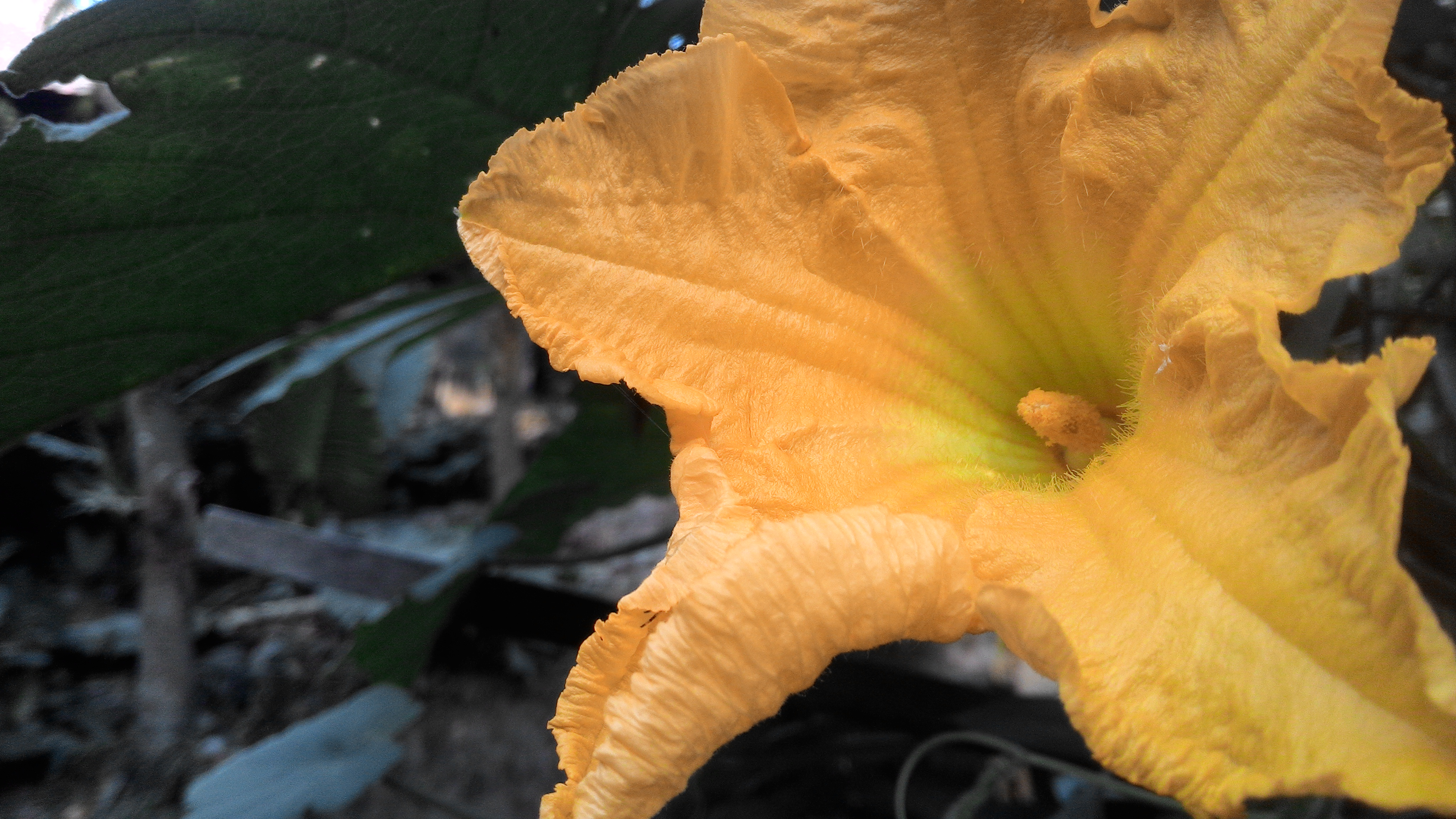 Pumpkin flower